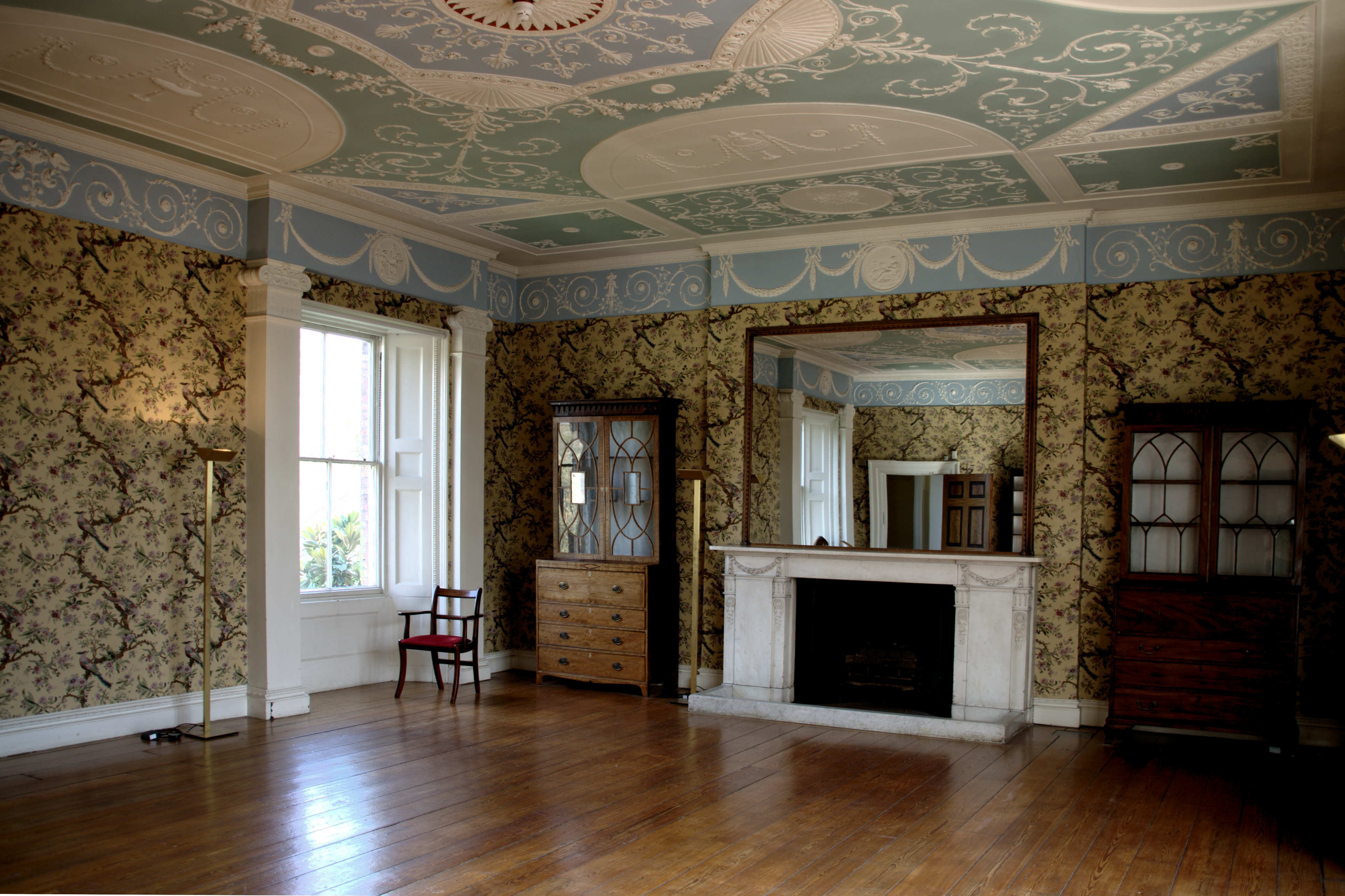 The Drawing room of Pitzhanger Manor. This wing was originally designed by George Dance but was later modernised by John Soane. Both the wall paper and colour scheme is a recreation back to as it was in 1832.